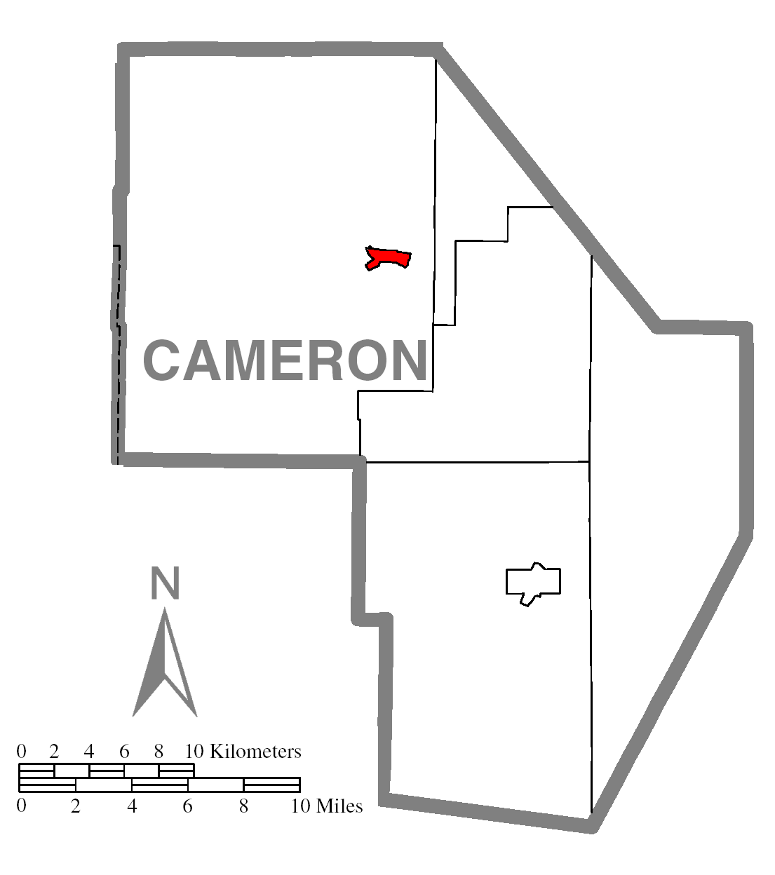 A map of Cameron County showing Emporium, Pennsylvania (alternate) highlighted on the map.